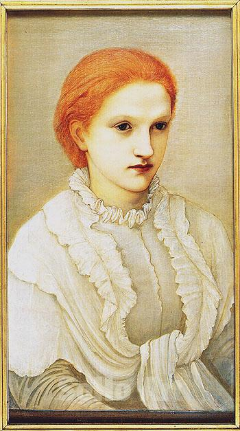 Lady Frances Balfour (née Campbell; 22 February 1858 – 25 February 1931) was one of the highest-ranking members of the British aristocracy to assume a leadership role in the women's suffrage movement. Painting by EDwardc Burne Jones. Guess date as 1880